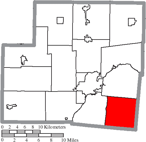 Map of the municipal and township boundaries of Shelby County, Ohio, United States, as of the 2000 census, with the location of Green Township highlighted. Township borders are shown only in unincorporated areas in order to differentiate incorporated and unincorporated areas more clearly.